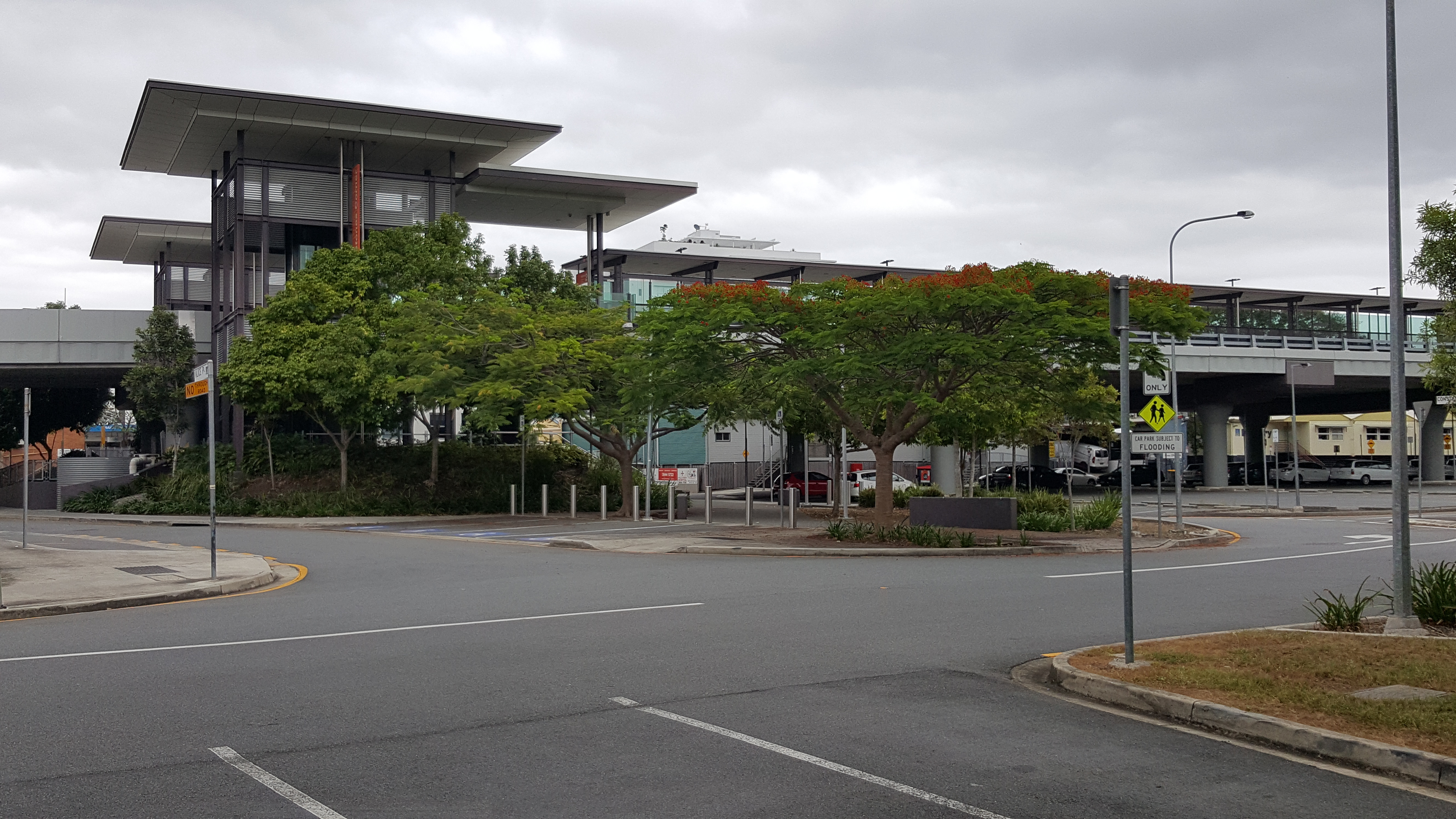 Stones Corner busway station external view.